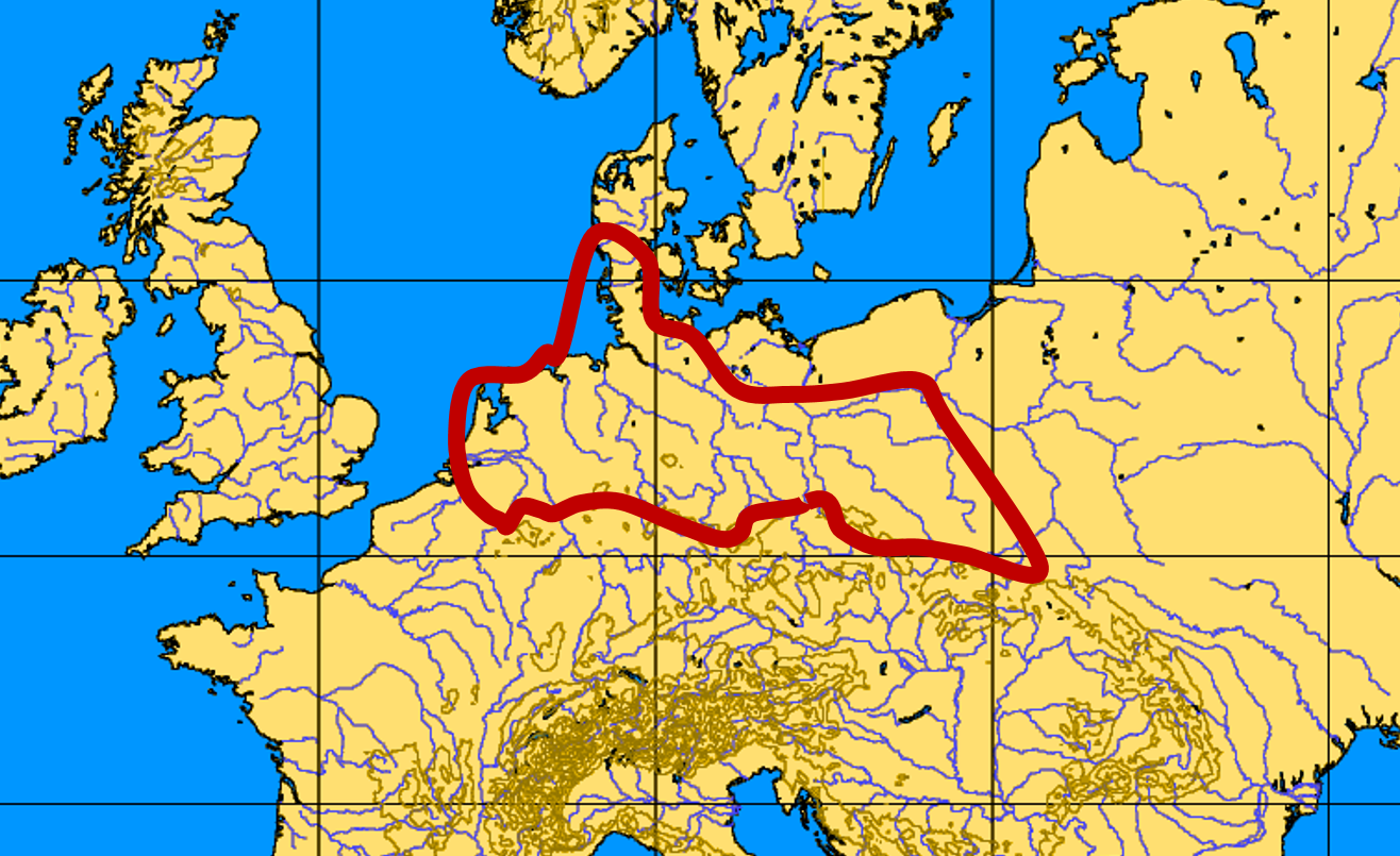 Location map of upper paleolithic Hamburg culture.